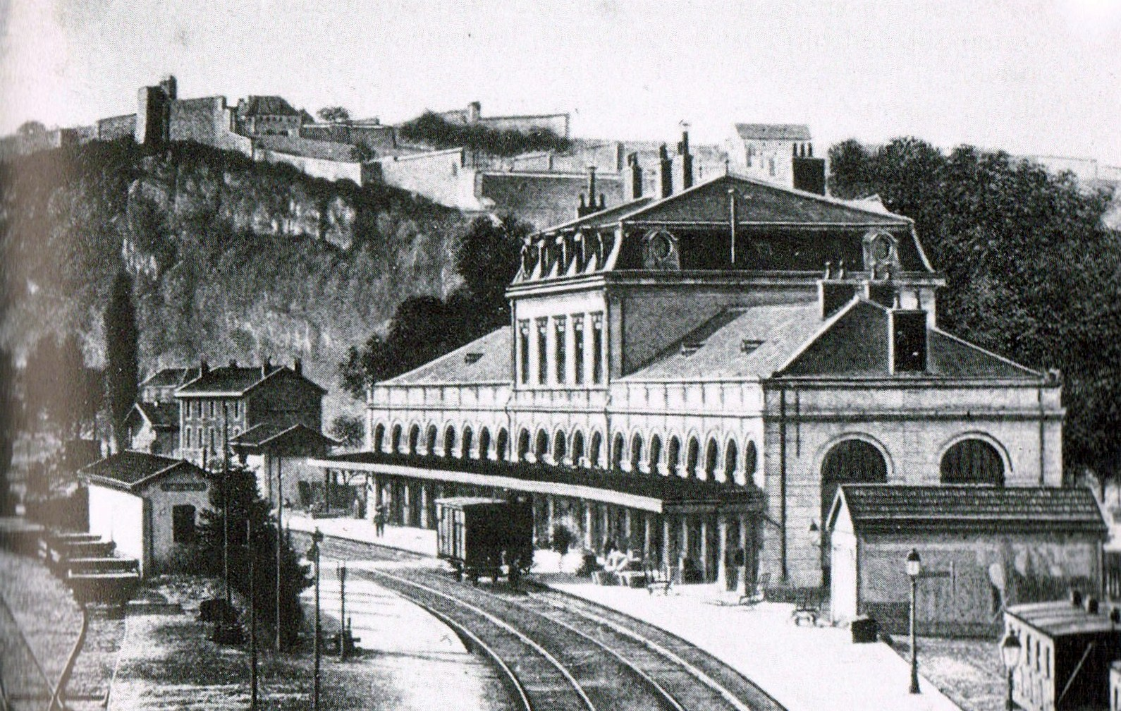 The train station (mouillère) of Besançon, in the beginning of XXe century.